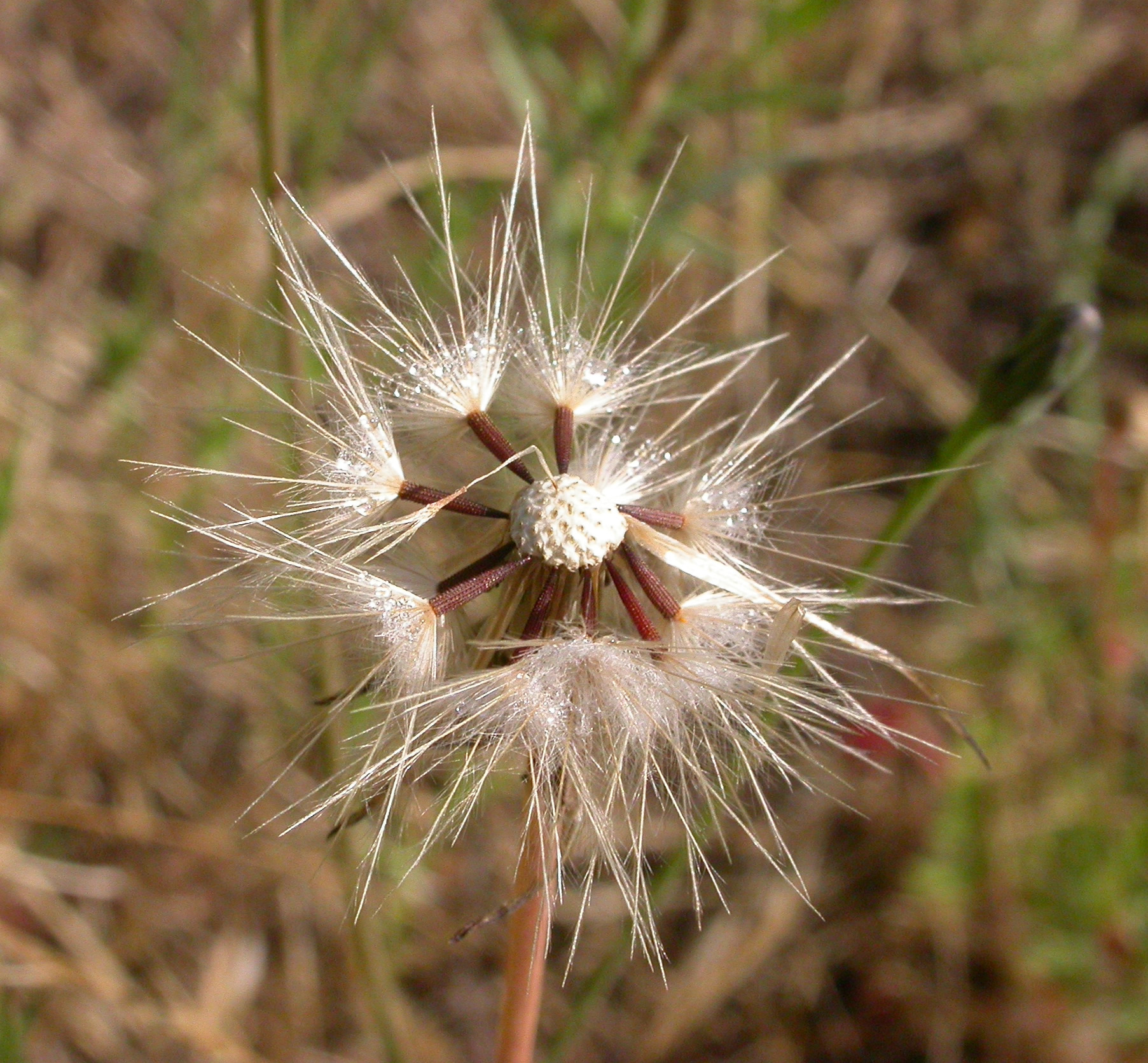 Photographed in Voorhis Ecological Reserve near Pomona, CA, USA. Species is an introduced weed.